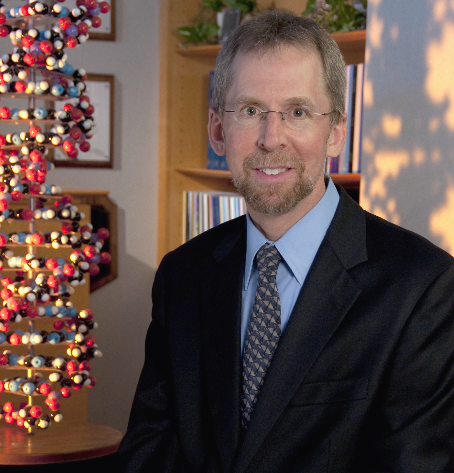 Dr. Eric D. Green, Director of NHGRI.